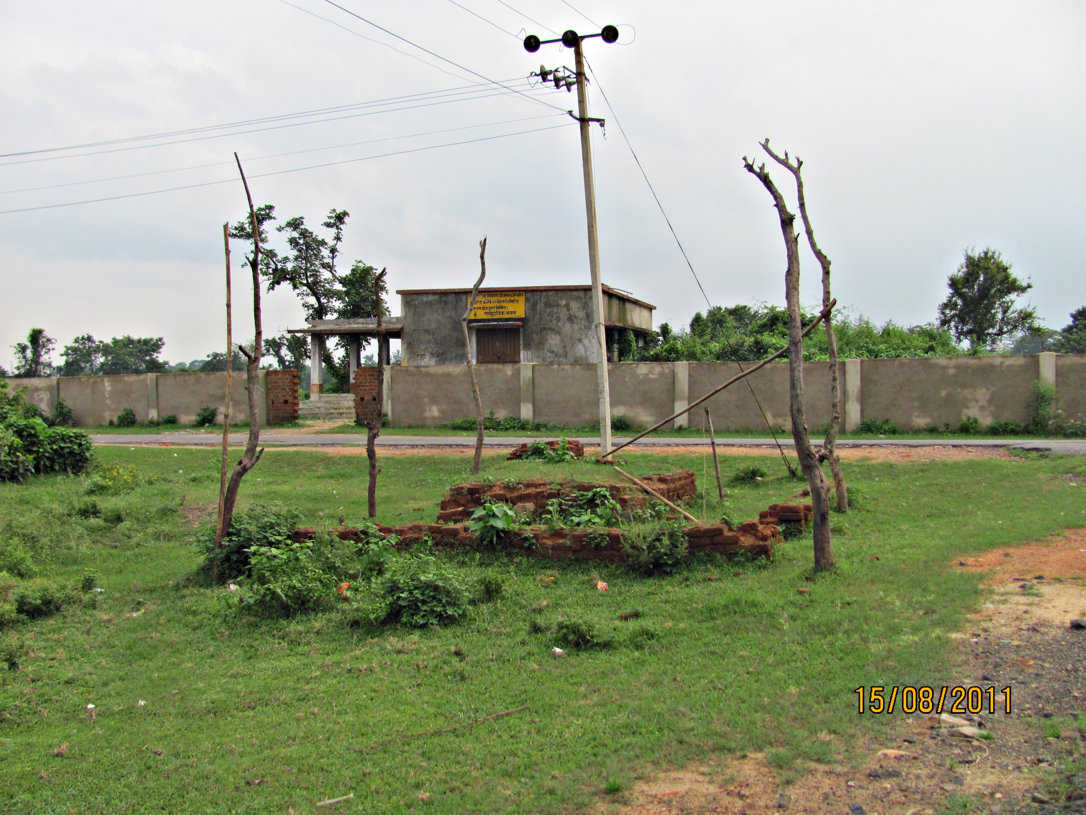 Park was still being developed. Forests have been removed to make park(sic).